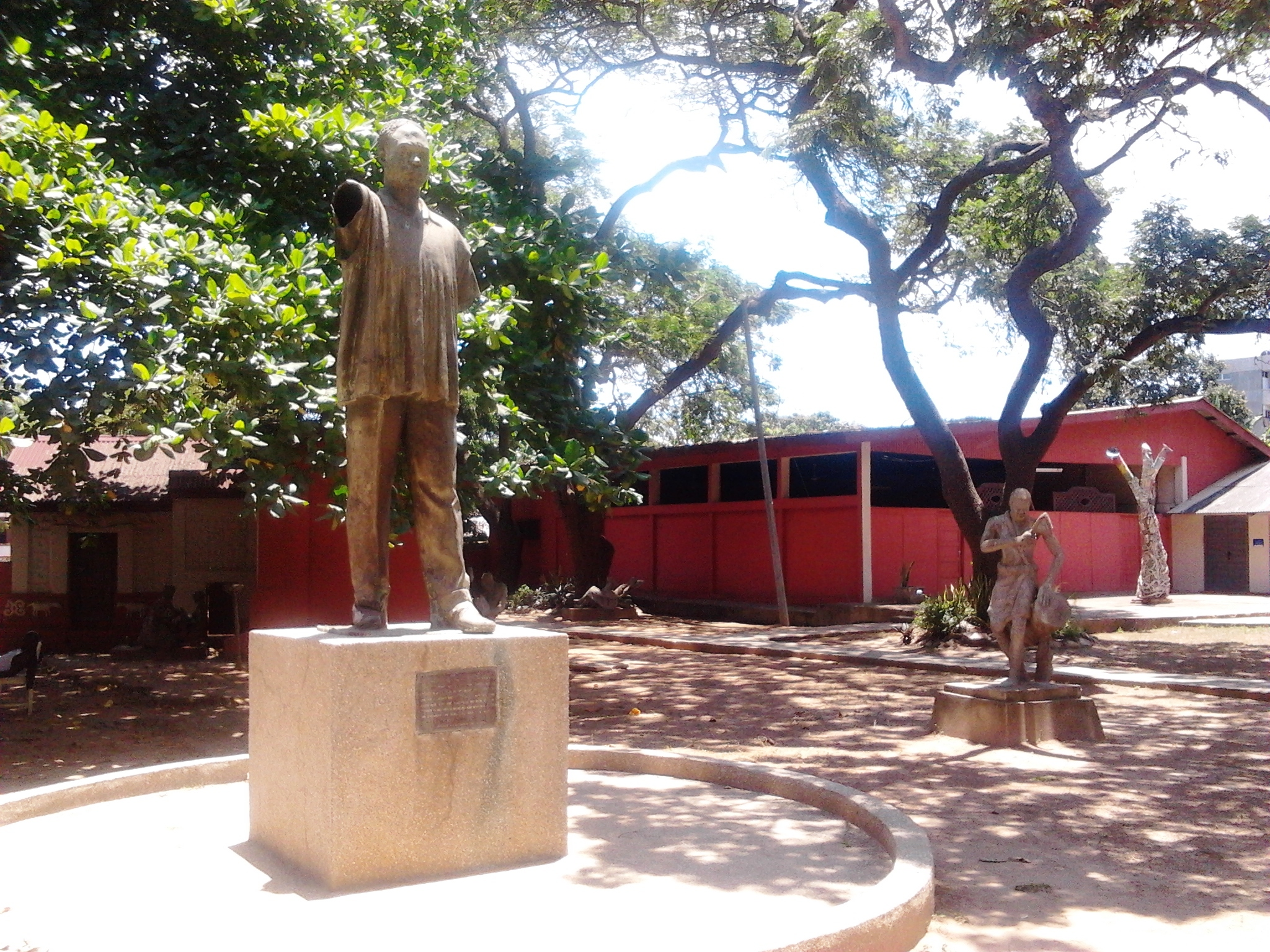 National Museum